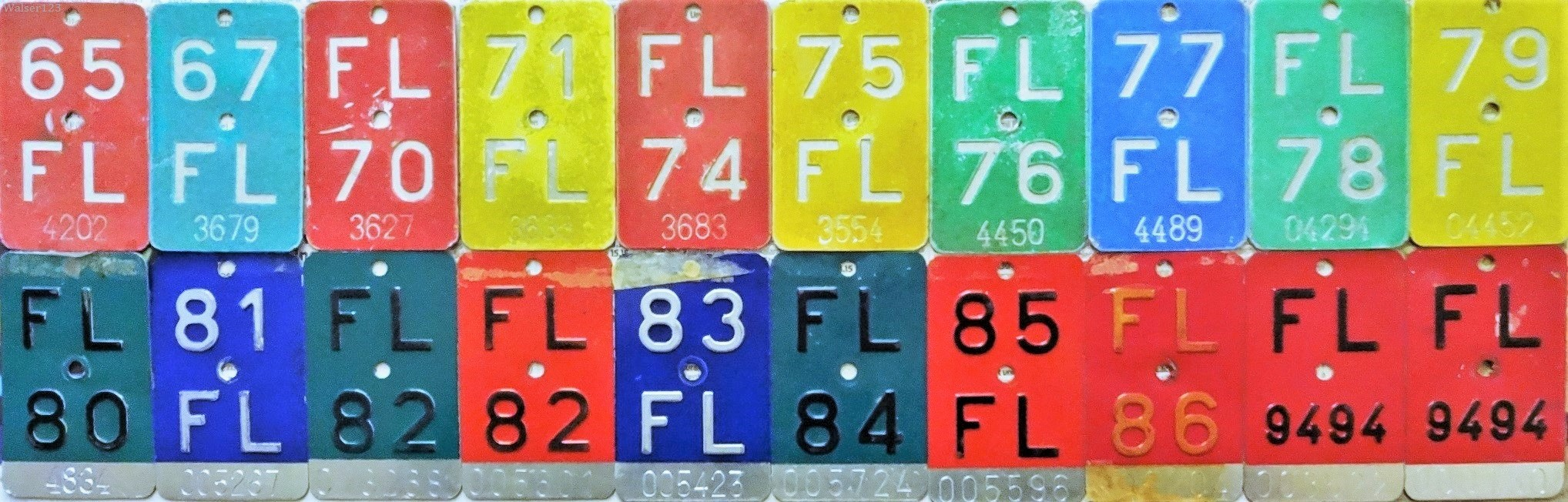 Collection of Liechtenstein bicycle insurance plates. They were issued nationwide each year until 1986. Since 1987 they are being issued locally, with a permanent serial number and the local zip code.